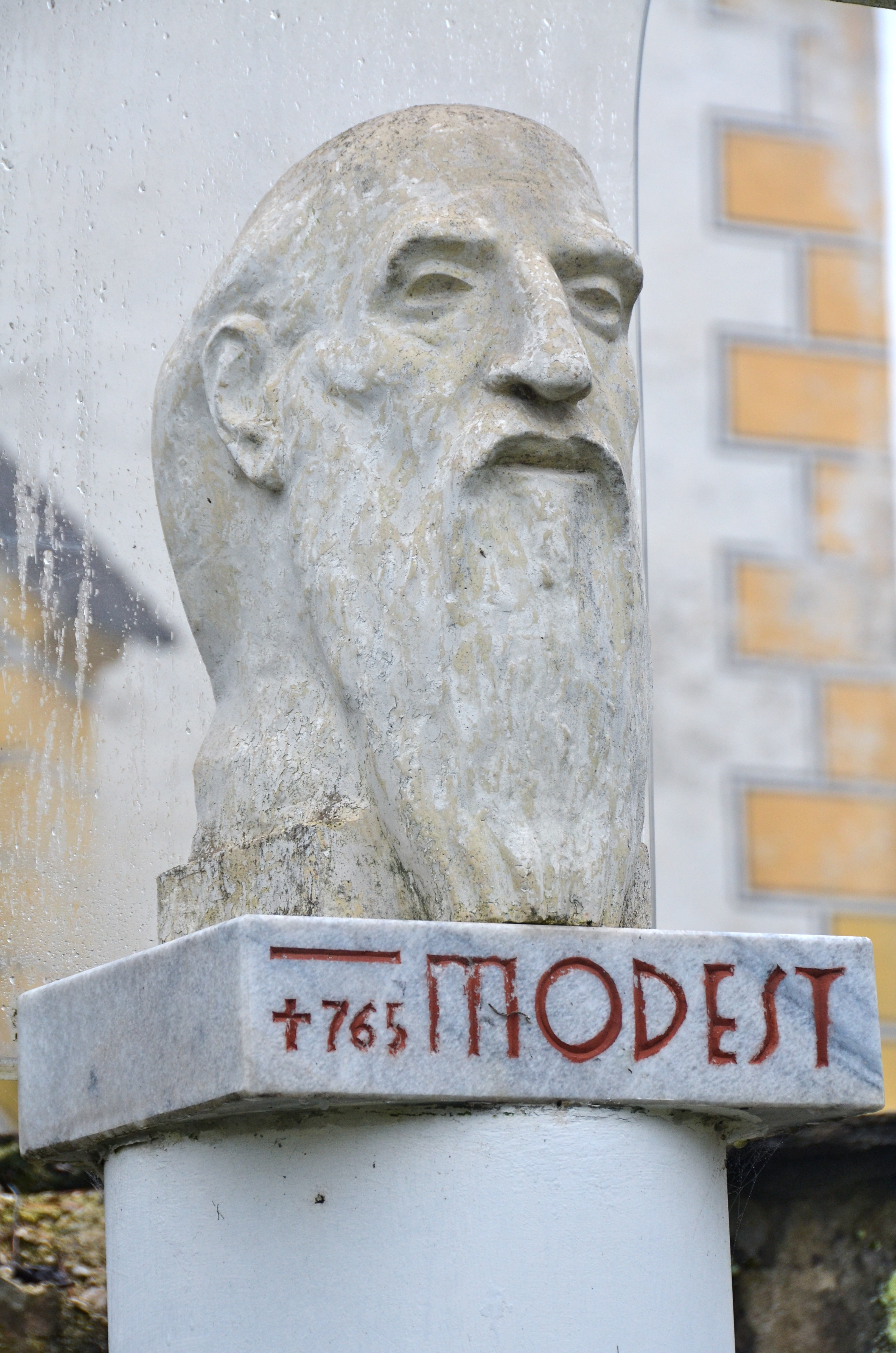 Bust of bishop Modest, created by the Slovenian sculptor France Gorše at the cultural park at Suetschach, market town Feistritz im Rosental, district Klagenfurt Land, Carinthia / Austria / EU